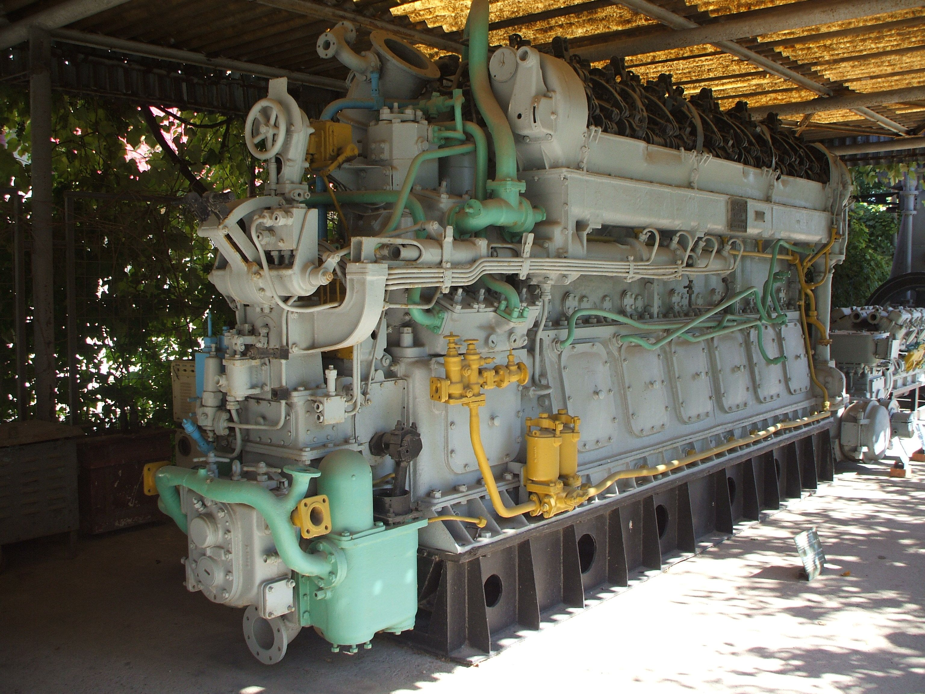 The diesel engine of Delfinul submarine.